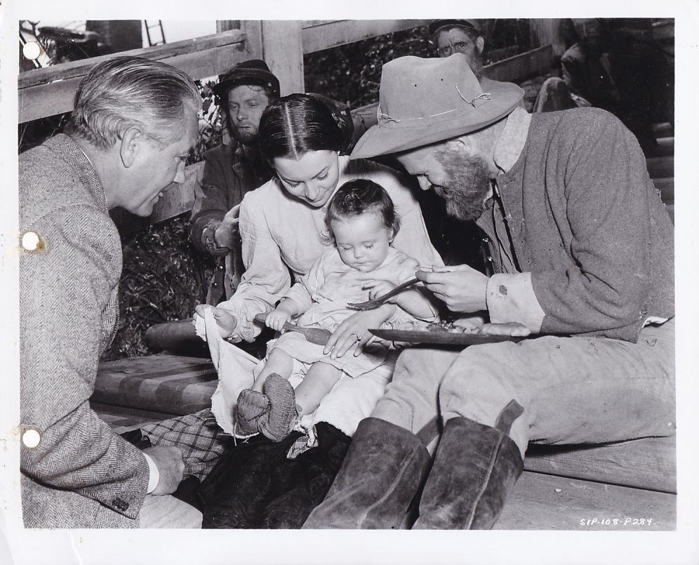 A behind-the-scene candid photo of Olivia de Havilland and director Victor Fleming on the set of Gone With the Wind (1939). L-R, Fleming, de Havilland, and Louis Jean Heydt as one of the "hungry soldiers" returning from battle who stops at Tara.